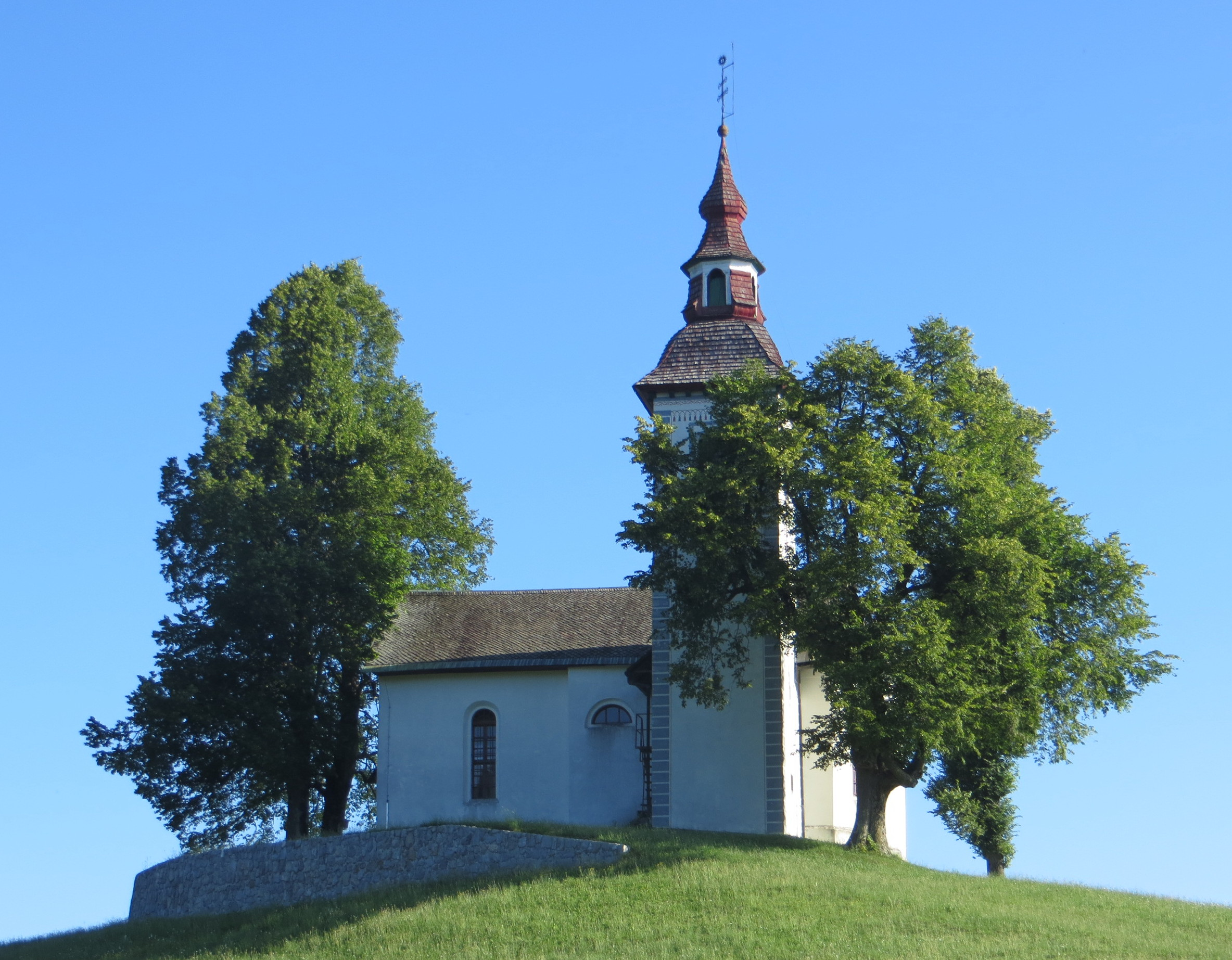 Saint Thomas's Church in Sveti Tomaž, Municipality of Škofja Loka, Slovenia